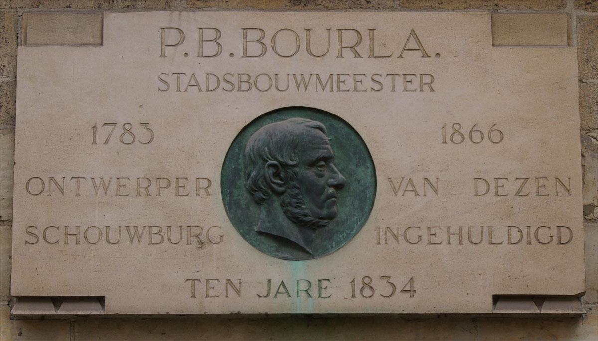 Profile and plaque of Pierre Bruno Bourla on the Bourla Theatre, Antwerp